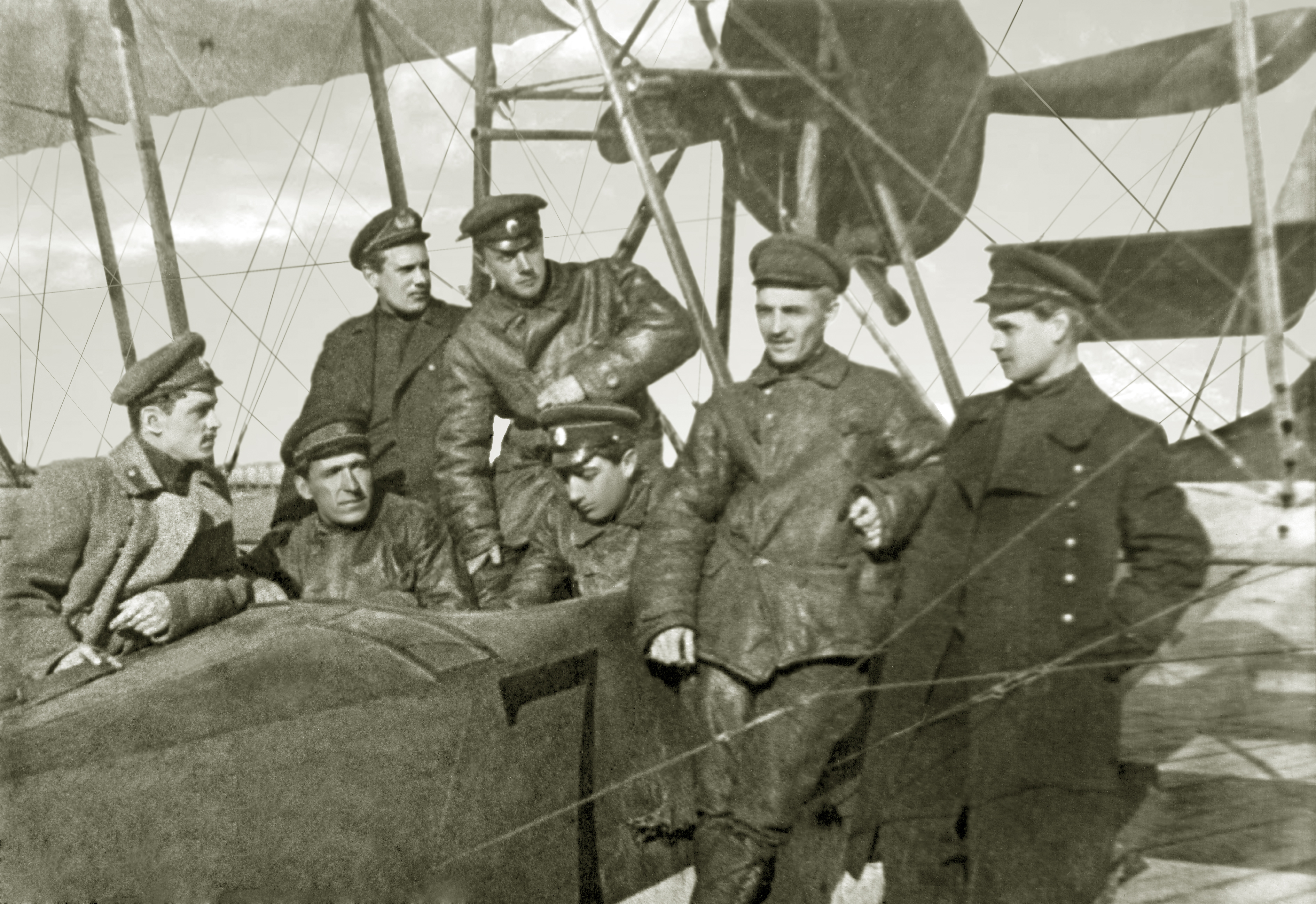 Naval Aviation Officer's School in Baku.